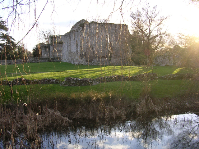 Looking across the moat at the ruins of the Bishop's Palace. The site is in the care of English Heritage, and was not open late on this February afternoon. This view would not be possible when the willow trees are in leaf.